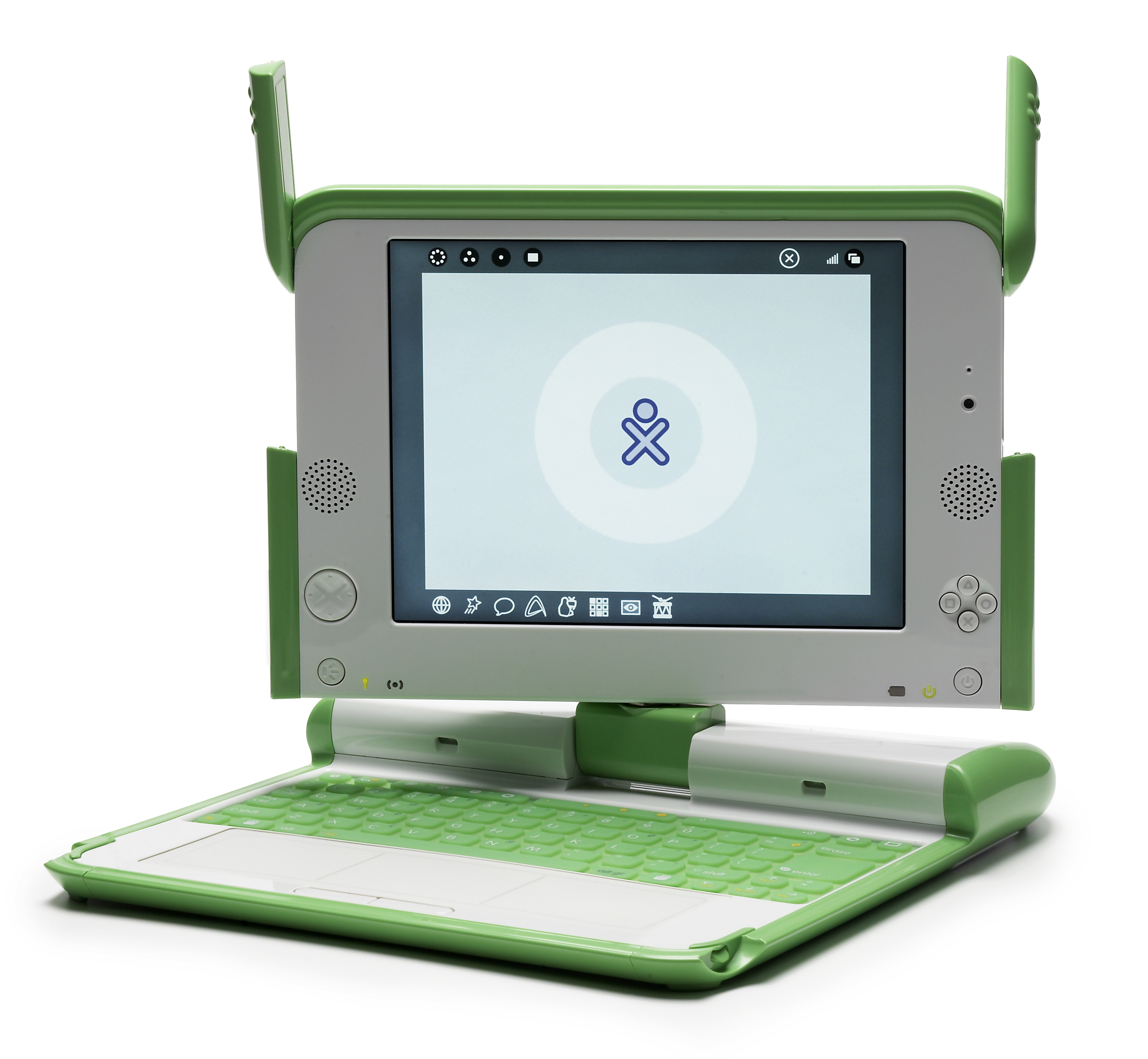 XO, Children's Machine, OLPC, $100 laptop/ Beta 1 machine.